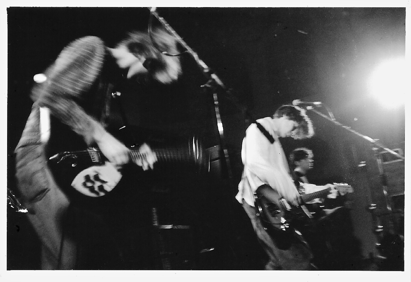 Ride,Town Hall Oxford 1990 Oxford Gig photos 1989-90. Includes Ride, Carter, the Shamen, Mega City Four Neate photos facebook page. More neate photos.